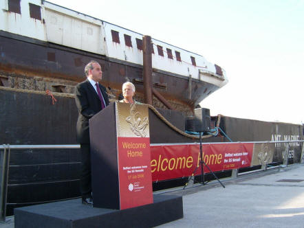 SS Nomadic welcomed back to Belfast.